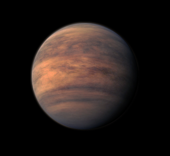 The only planet in the system HD 40307, located in the Goldilocks zone of its star and is of interest as a potentially habitable planet.